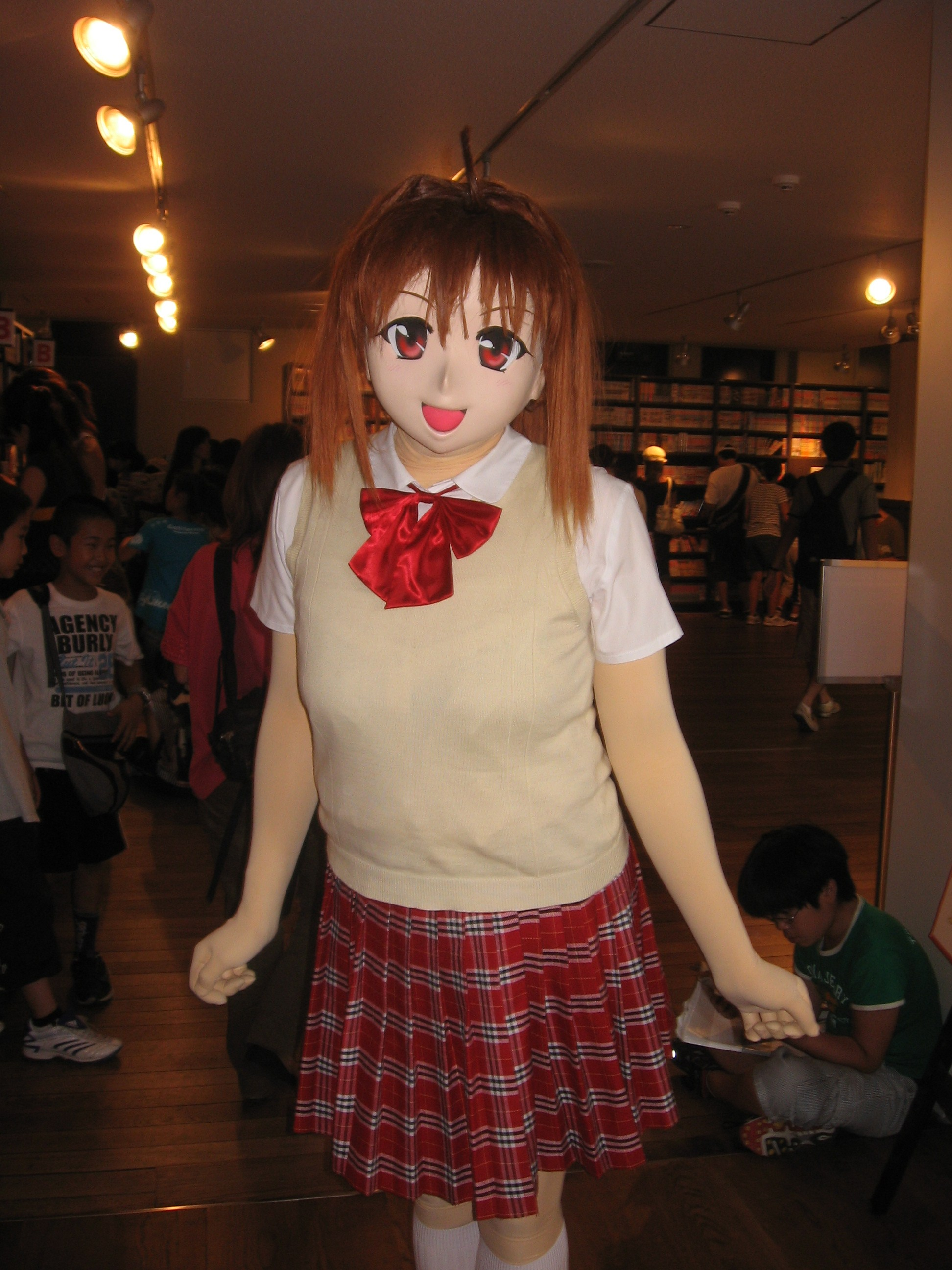 Several "dollers", or "animegao" cosplayers, were at the 2008 Kyoto International Manga Summit. This one agreed to pose for a picture.